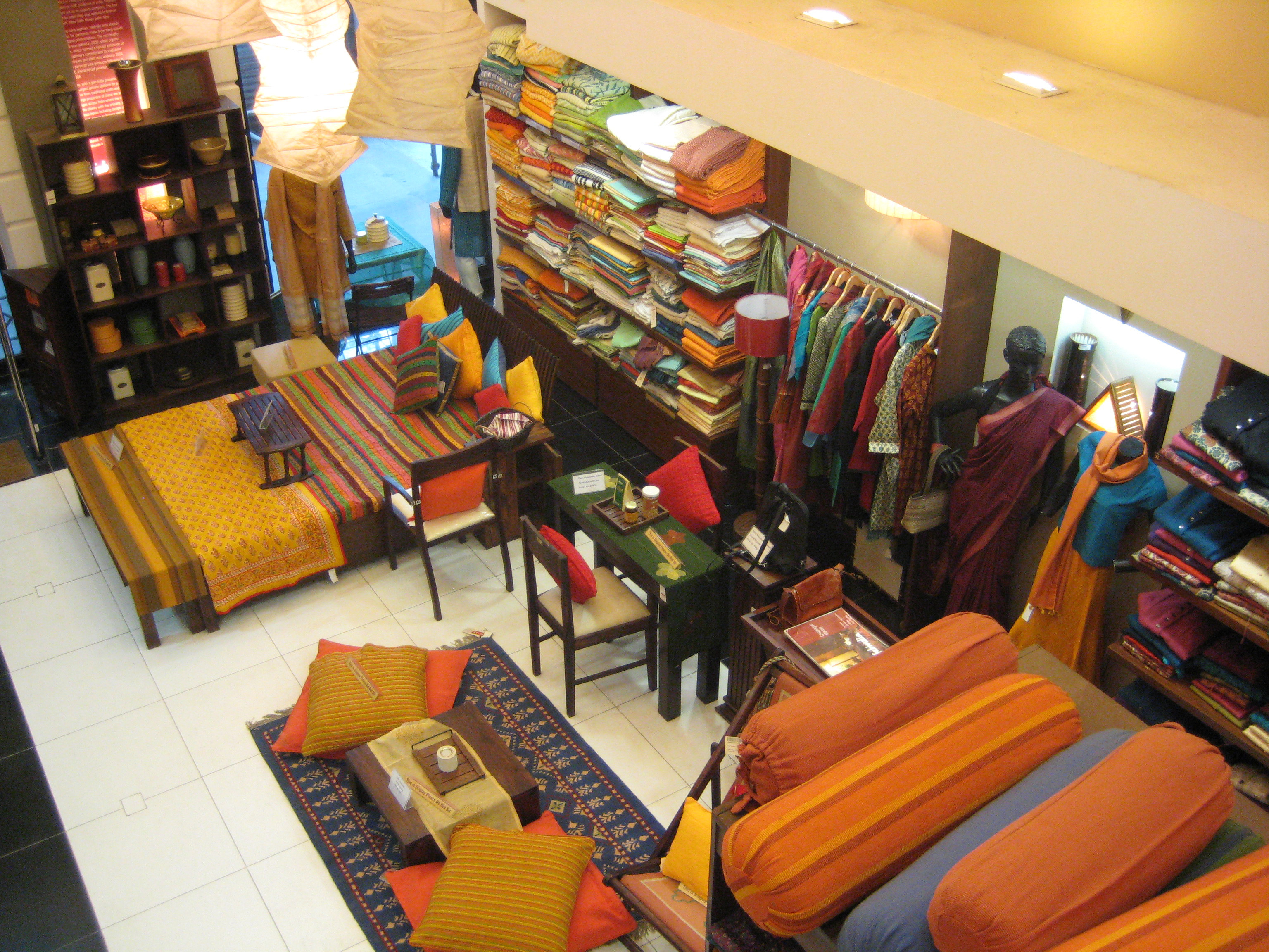 Fabindia in Delhi, Connaught Place, Vasant Kunj and Khan Market. A popular store for high quality traditional clothing that caters to foreigners with a Western style store that is inside, with fixed prices, and no haggling.